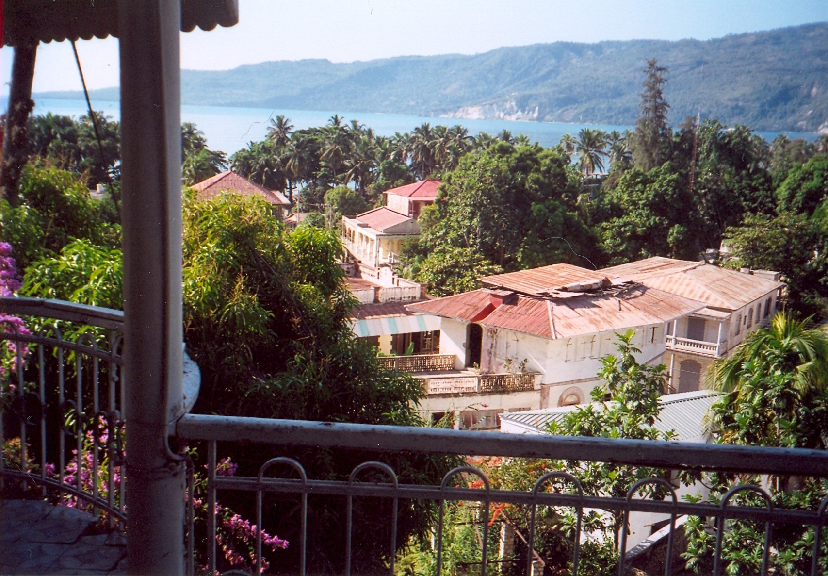 View of Jacmel and the bay, Haiti.